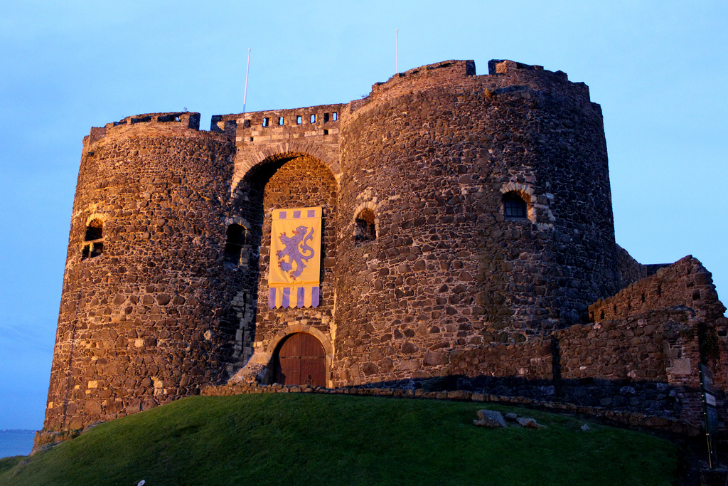 Carrickfergus Castle, Carrickfergus, Northern Ireland